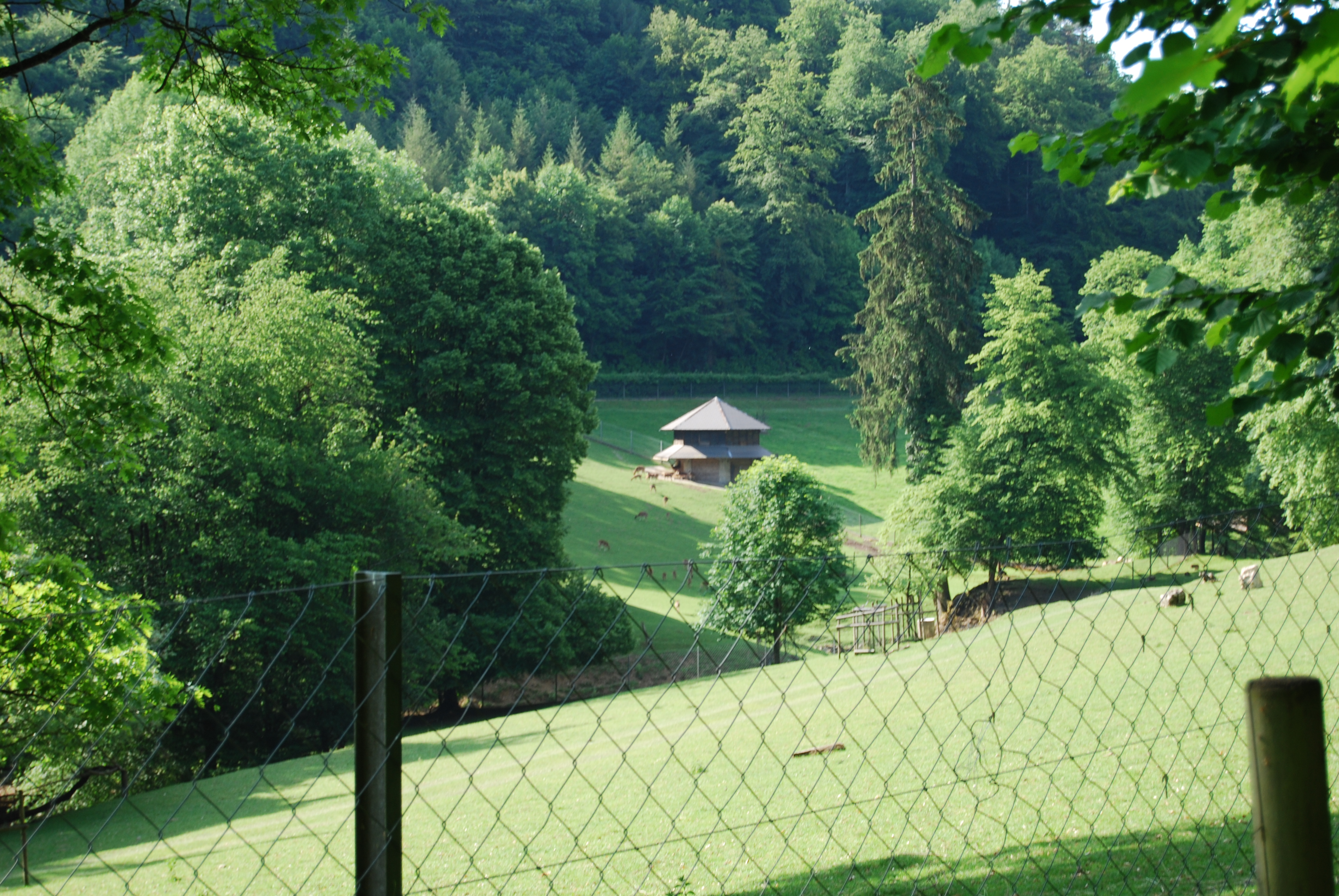 Wild Animal Park Roggenhausen at Aarau and Eppenberg-Wöschnau, canton of Solothurn, Switzerland